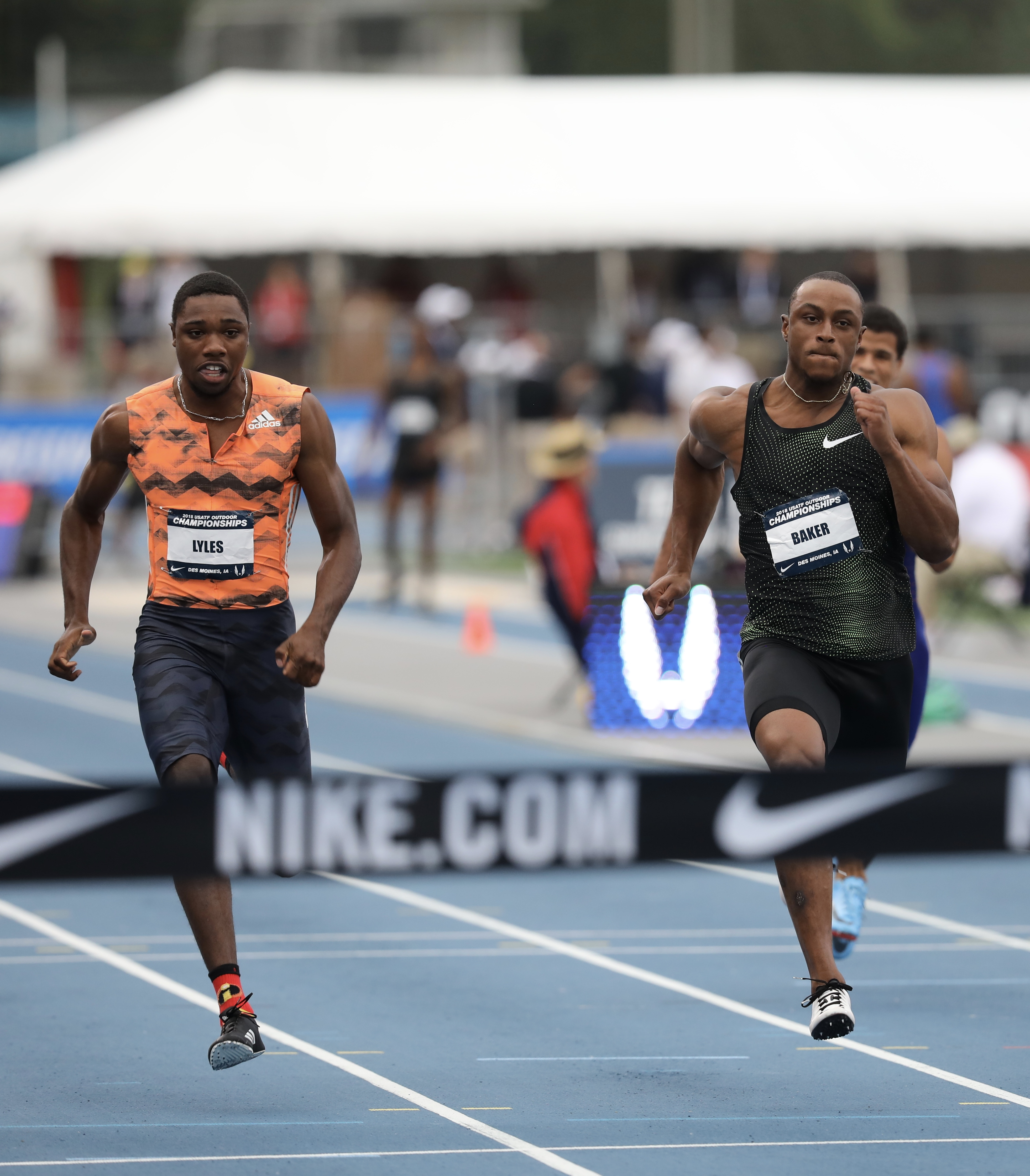 2018 USA Outdoor Track and Field Championships